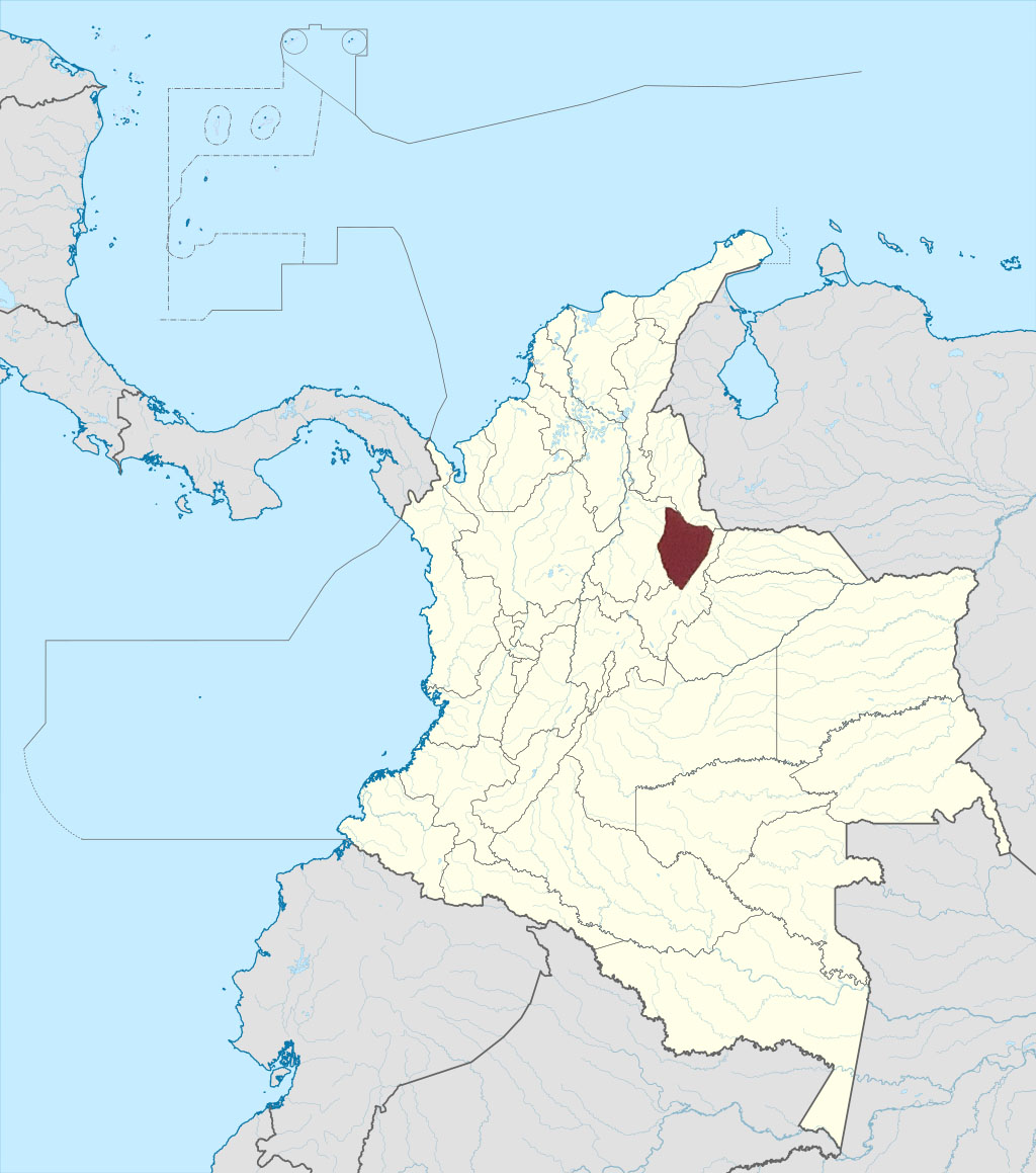 Historic territory of guane people.